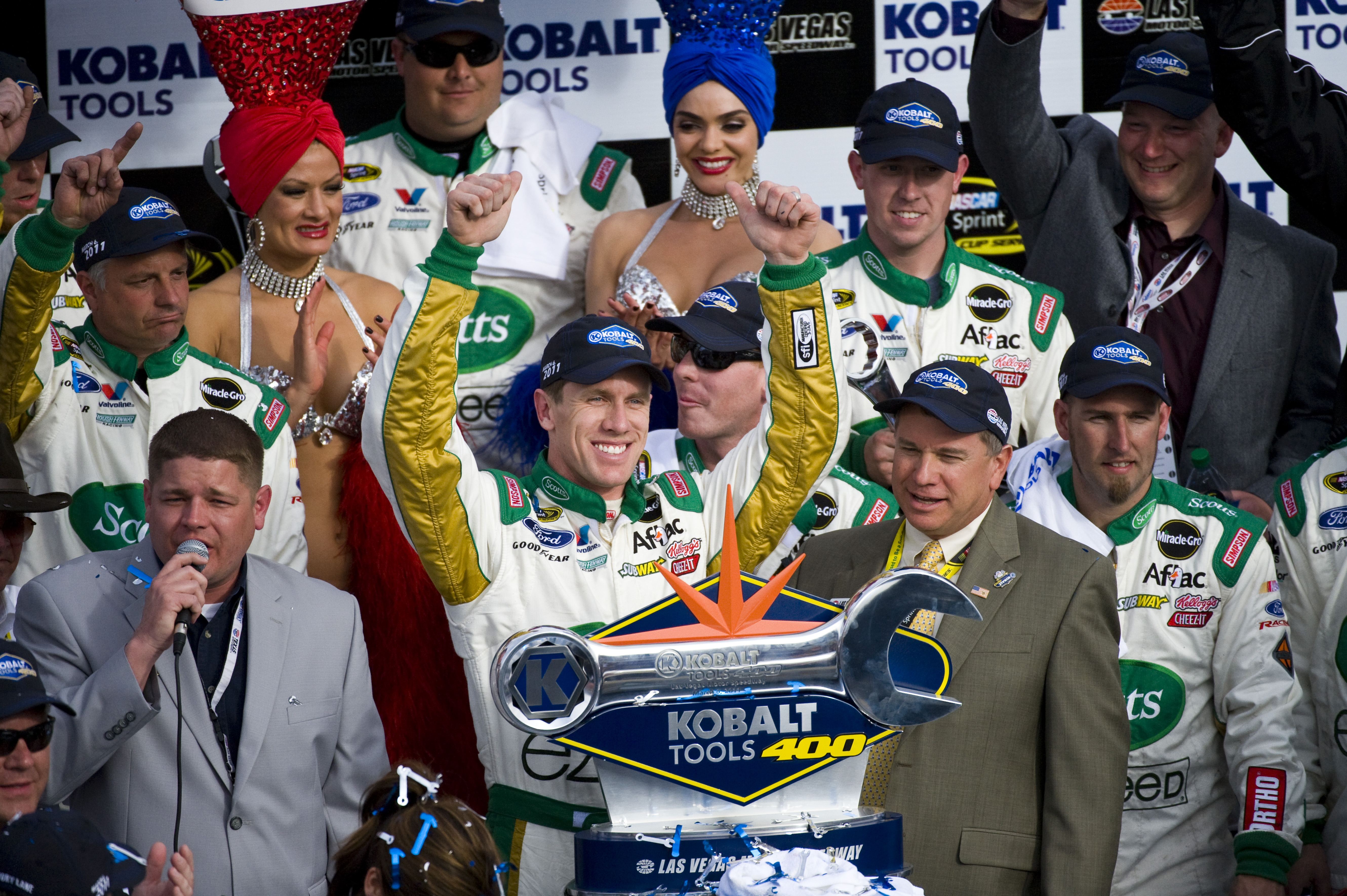 Carl Edwards of Roush Fenway Raceing, stand in victory lane with his pit crew and his trophy for winning the Kobalt Tools 400 at Las Vegas Speedway, March 06, 2011. The Kobalt Tools 400 is the third race in the Sprint Cup season. (U.S. Air Force photo by Airman 1st Class Daniel Hughes/Released)